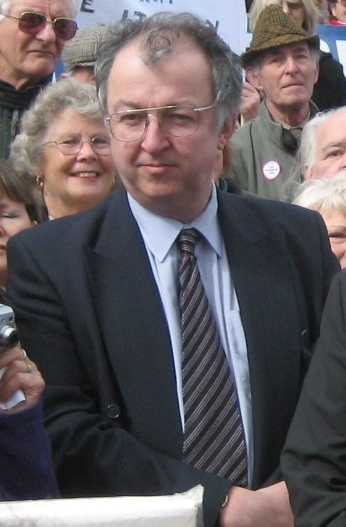 John Hemming - photo cropped to remove other people from shot